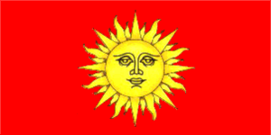 Flag of Svietlahorsk town (Homiel region, Republic of Belarus).